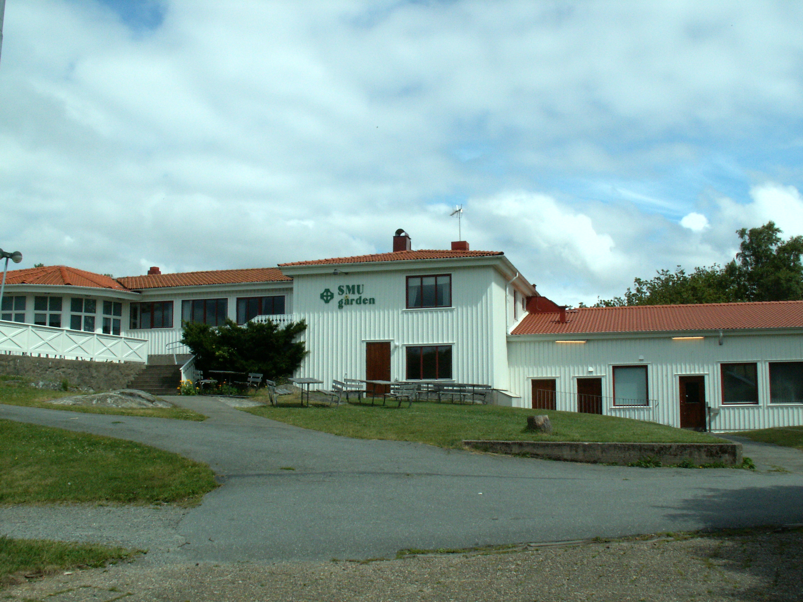 SMU-gården, Donsö.